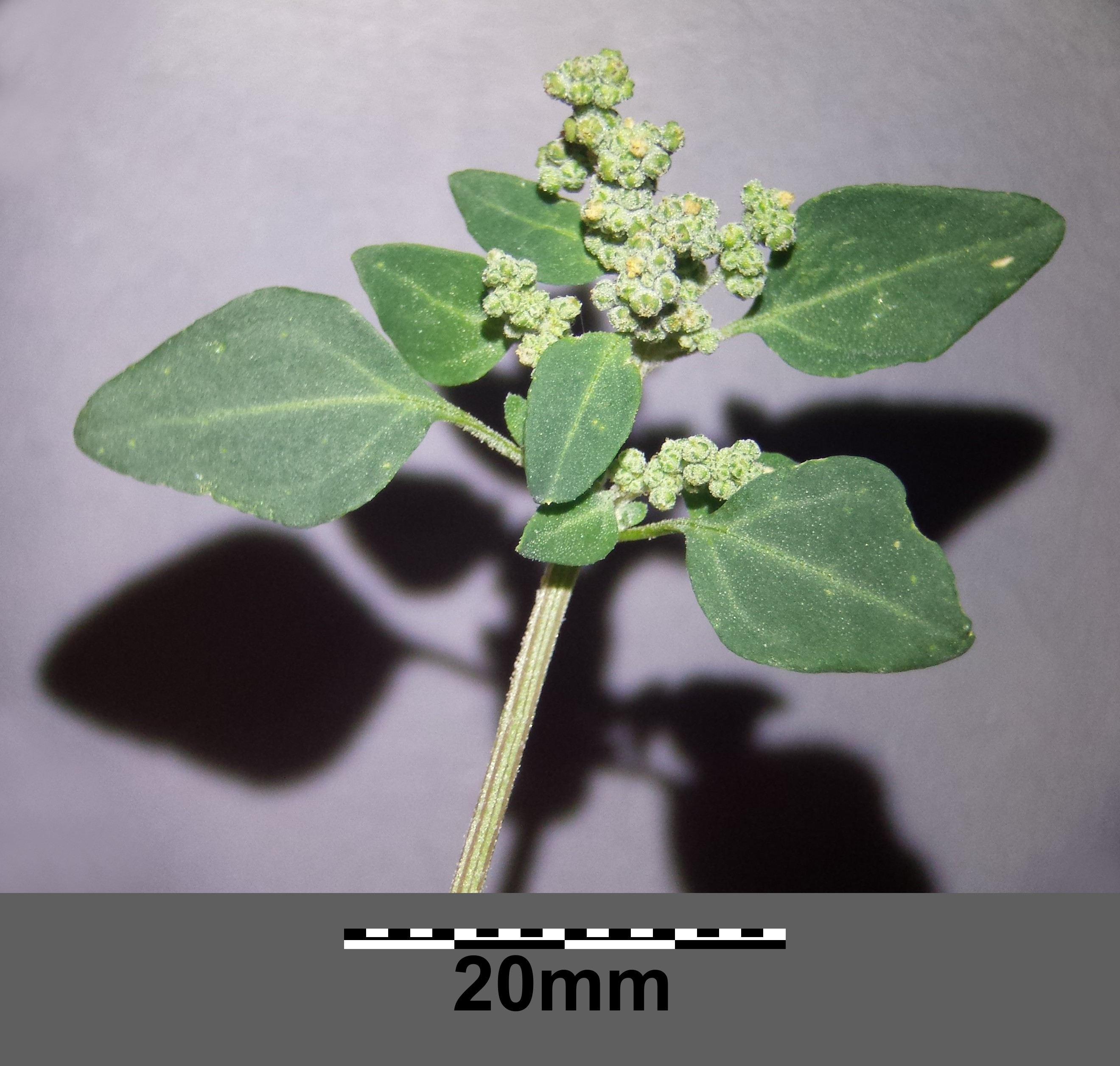 Inflorescence Taxonym: Chenopodium vulvaria ss Fischer et al. EfÖLS 2008 ISBN 978-3-85474-187-9 Location: Kagran, Vienna-Donaustadt - ca. 160 m a.s.l. Habitat: wall base